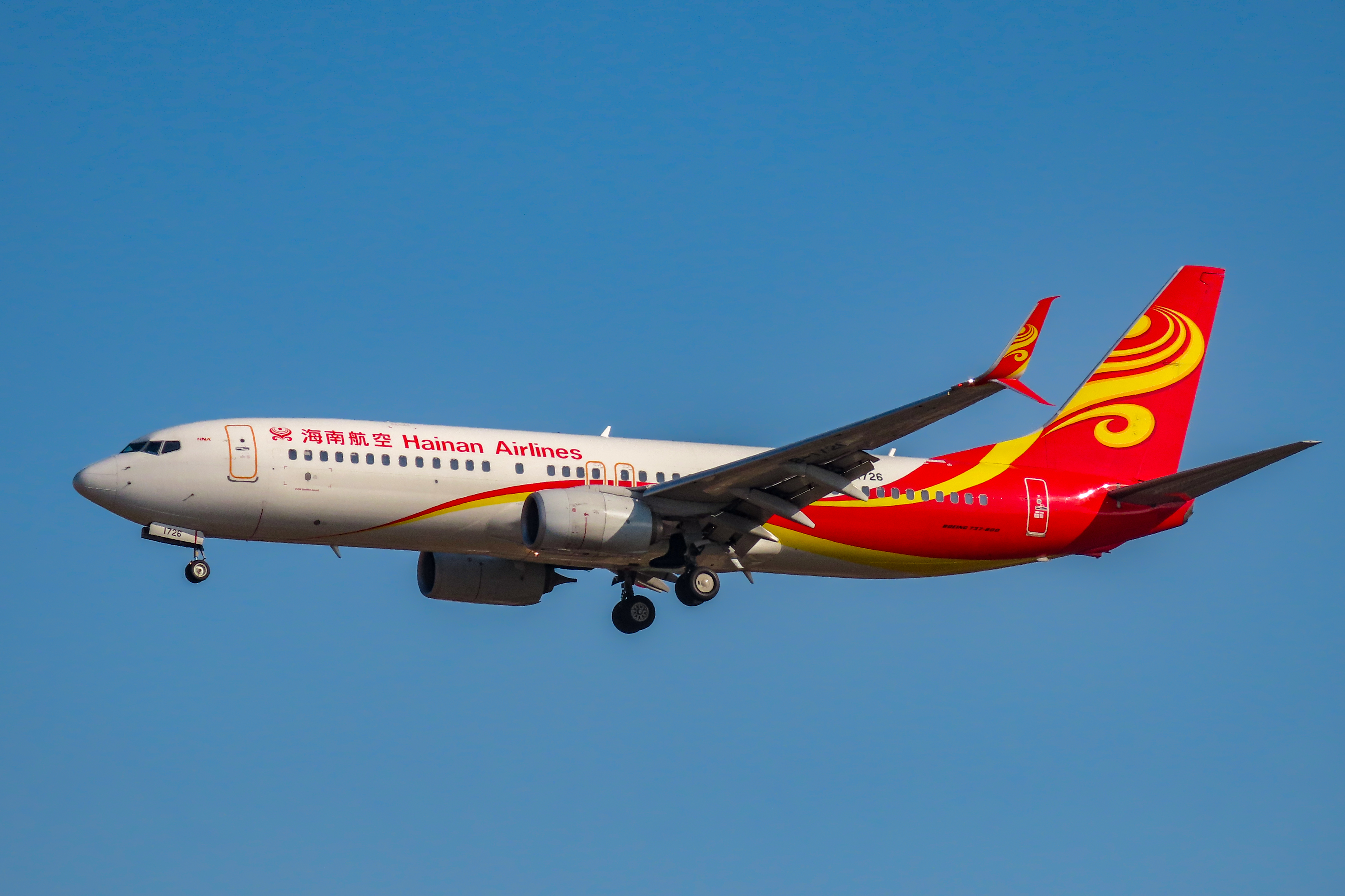 Hainan 7622 from Jiamusi. What a "fake MAX"...